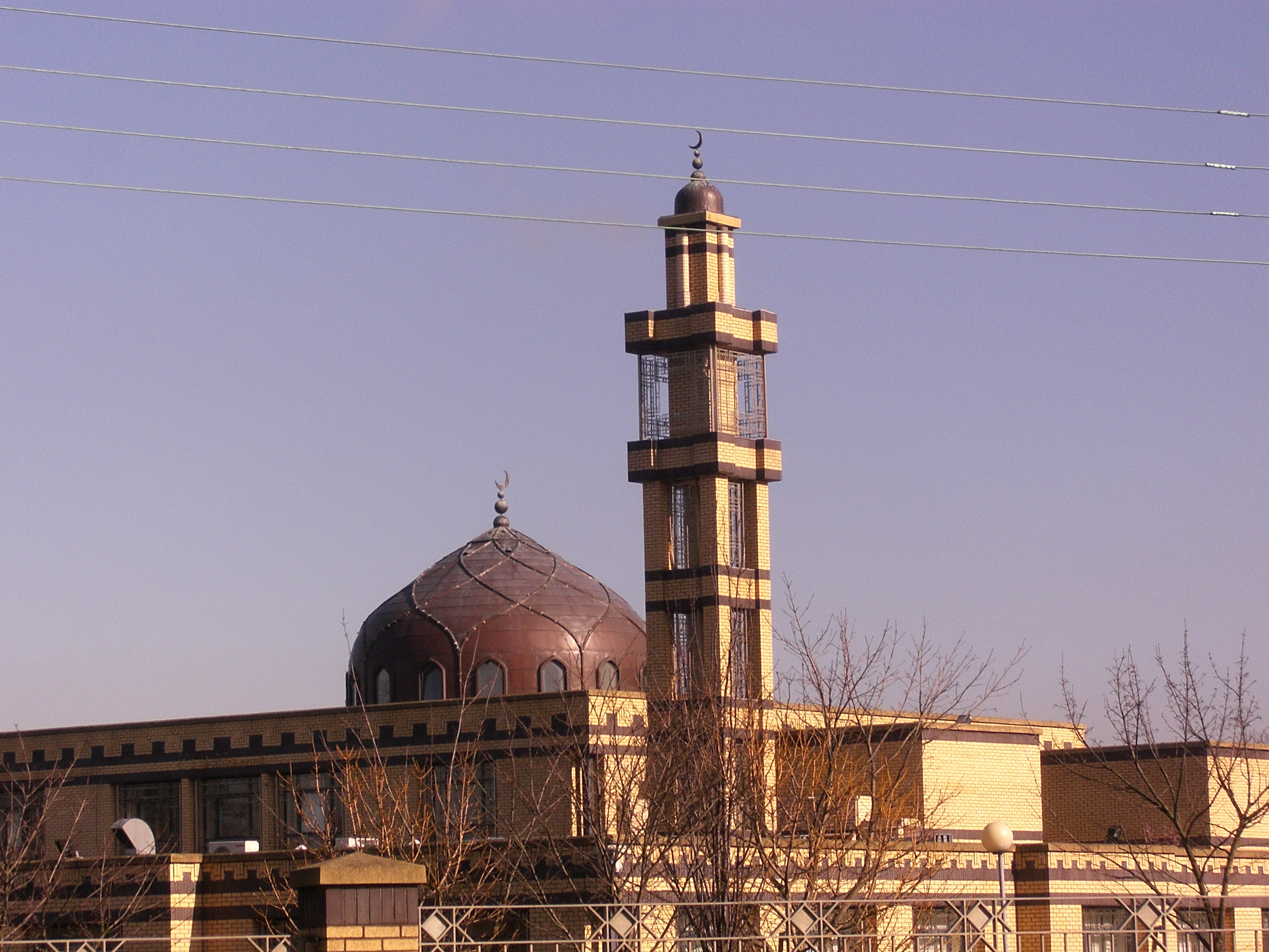 The mosque in Clonskeagh